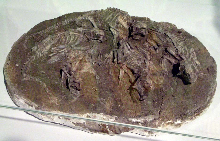 Psittacosaurus lujiatunensis (formerly Hongshanosaurus houi) fossil displayed in Hong Kong Science Museum